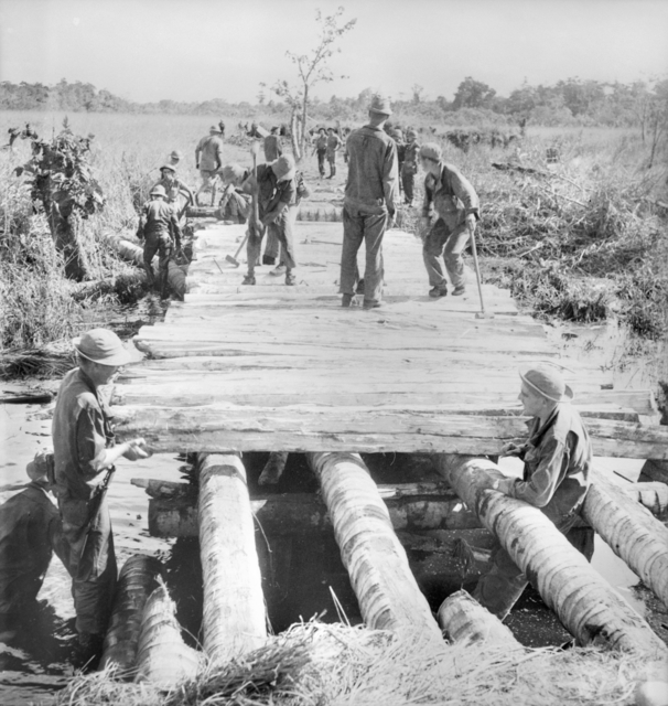 1942-12-05. BUNA. ALLIED TROOPS BUILD A BRIDGE ACROSS SEMINI CREEK. TANKS RACED ACROSS THIS BRIDGE IN THE ATTACK ON THE MAIN BUNA AIRSTRIP. (NEGATIVE BY G. SILK).